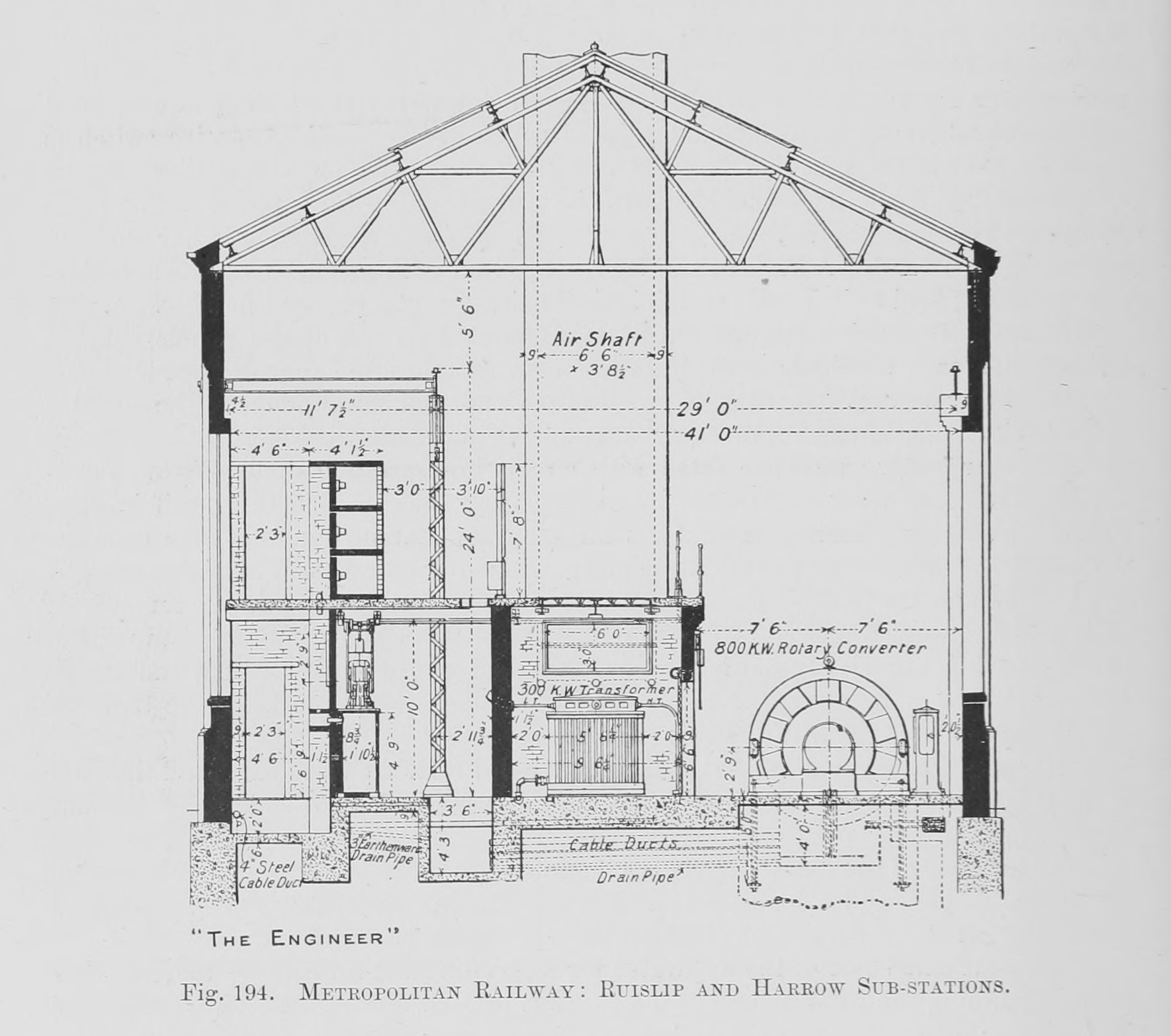 see image title - first number is figure or diagram number. See list of illustrations in source for page number in source - relevent text content is near to image in the source